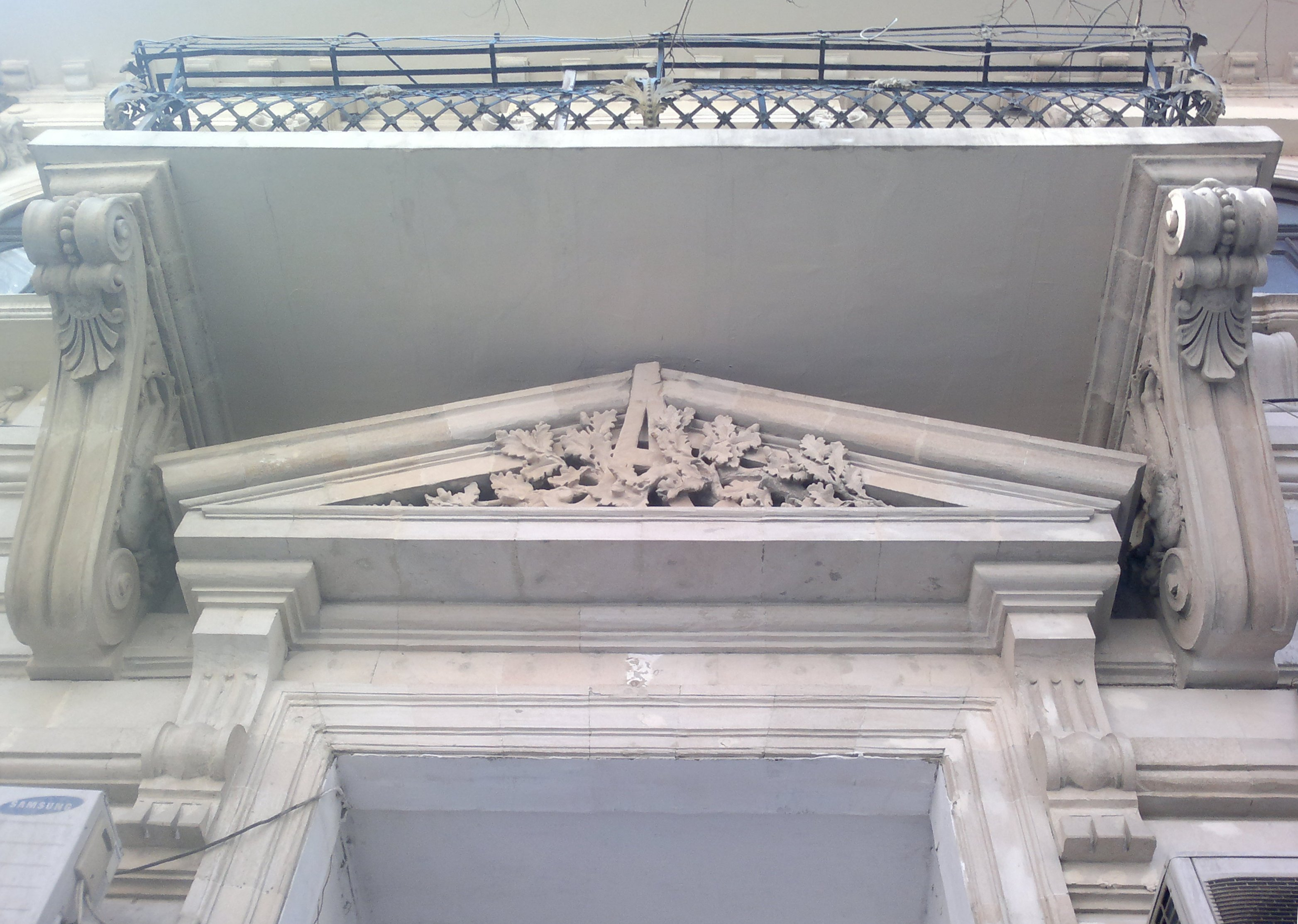 Monogram of Asadullayev on the facade of his house on Gogol Street 9 in Baku.